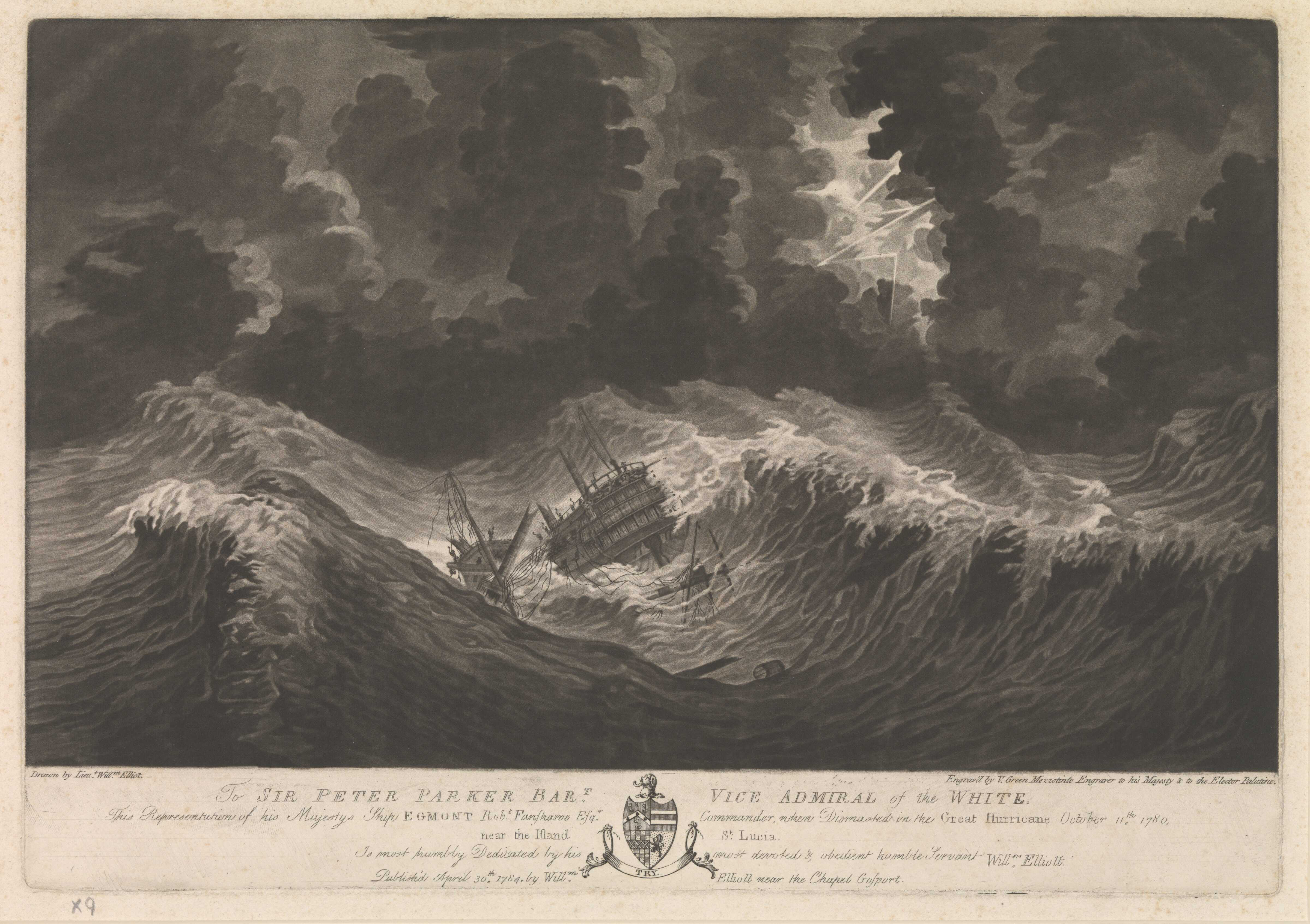 To Sir Peter Parker.... Egmont, Robt Fanshawe Esqr, Commander, when dismasted in the Great Hurricane October 11th 1780 near the Island St Lucia Print To Sir Peter Parker.... Egmont, Robt Fanshawe Esqr, Commander, when dismasted in the Great Hurricane October 11th 1780 near the Island St Lucia Sheet: 400 x 554 mm; Mount: 405 mm x 557 mm